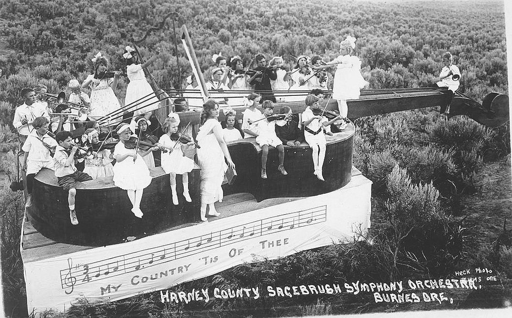 Sagebrush Symphony Fourth of July Float in Burns, Oregon; the float was built for Mary Dodge, the symphony director, by Daniel Jordan